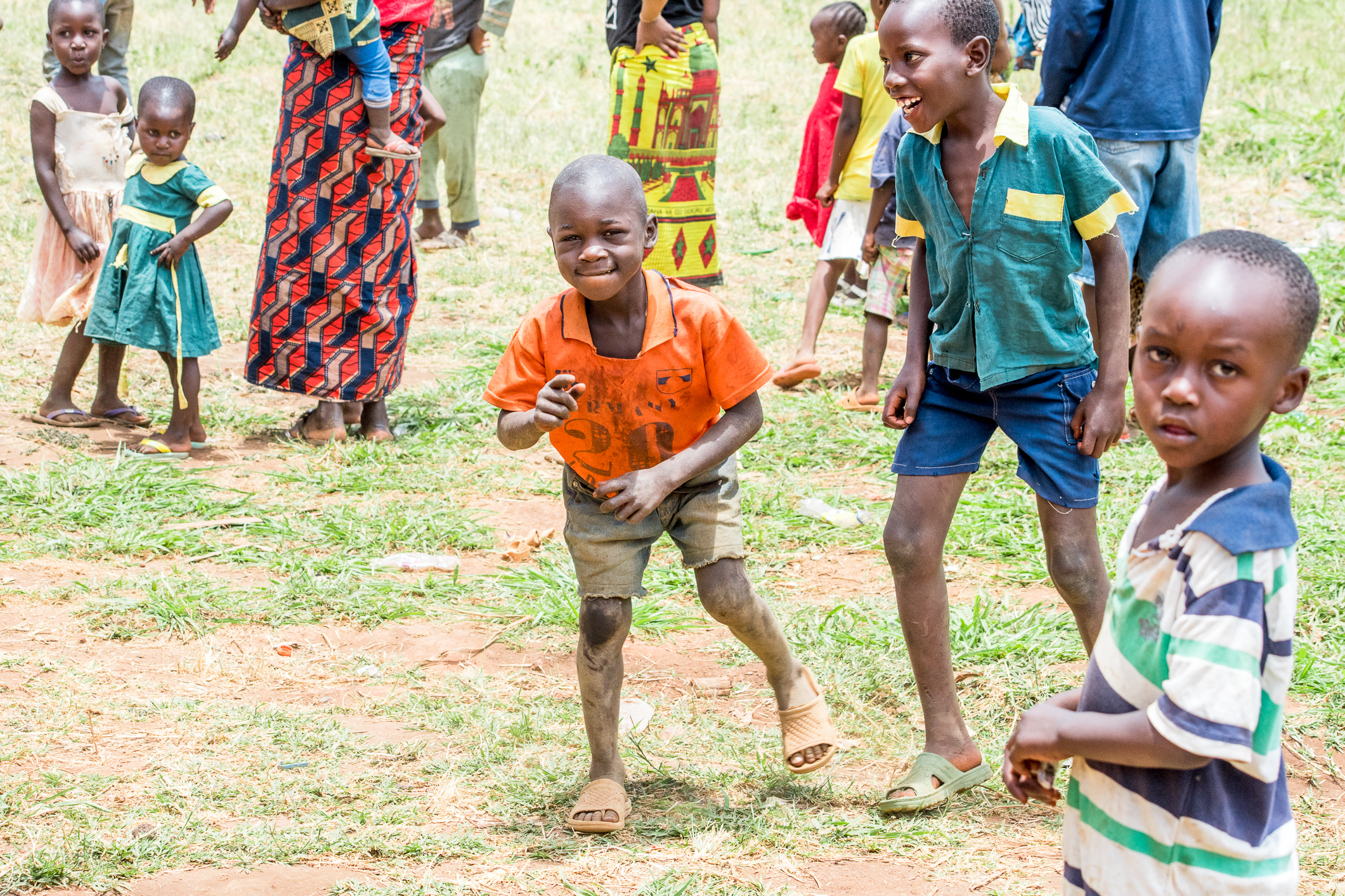 This is an image with the theme "Play" from: Tanzania